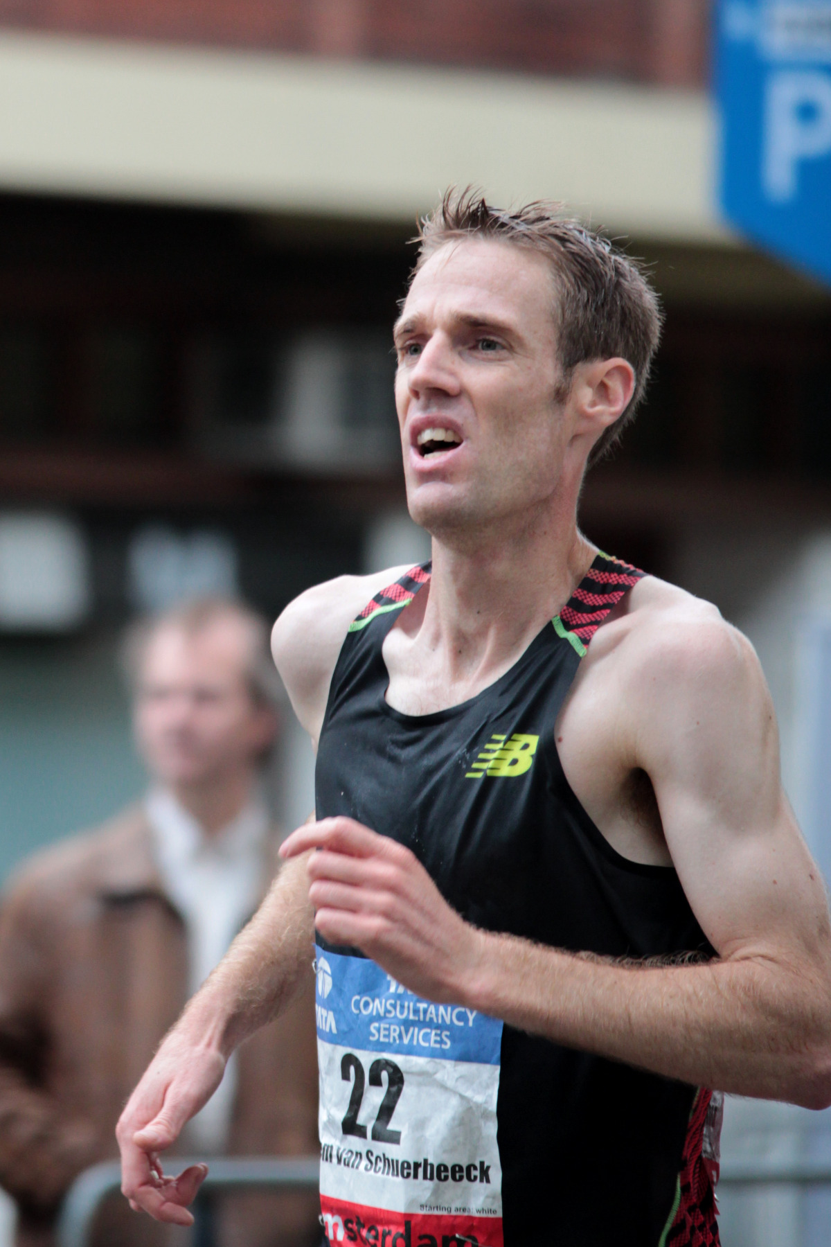 Willem van Schuerbeeck at the 2014 Amsterdam Marathon (medium).